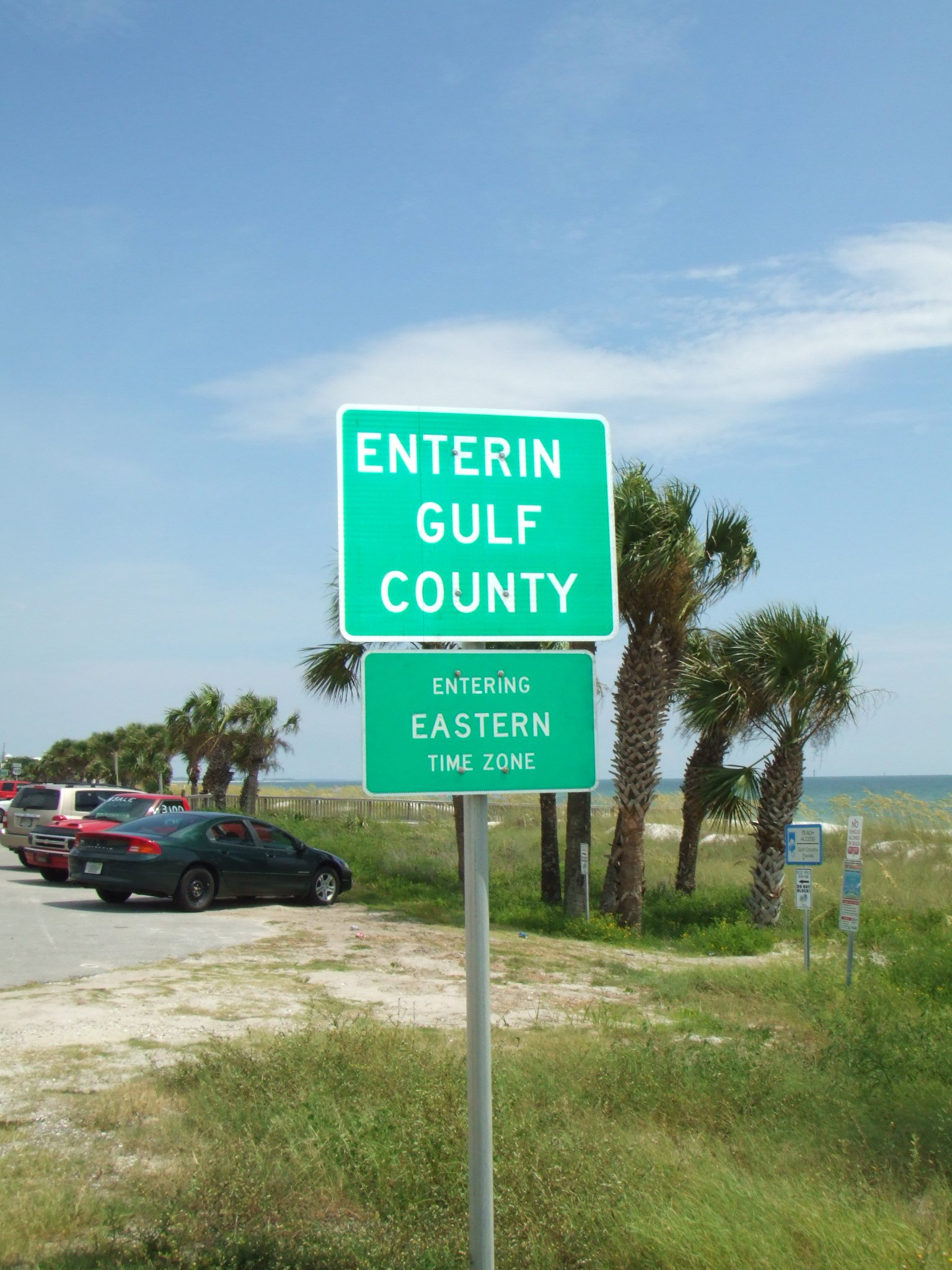 Misspelled sign welcoming people to Gulf County